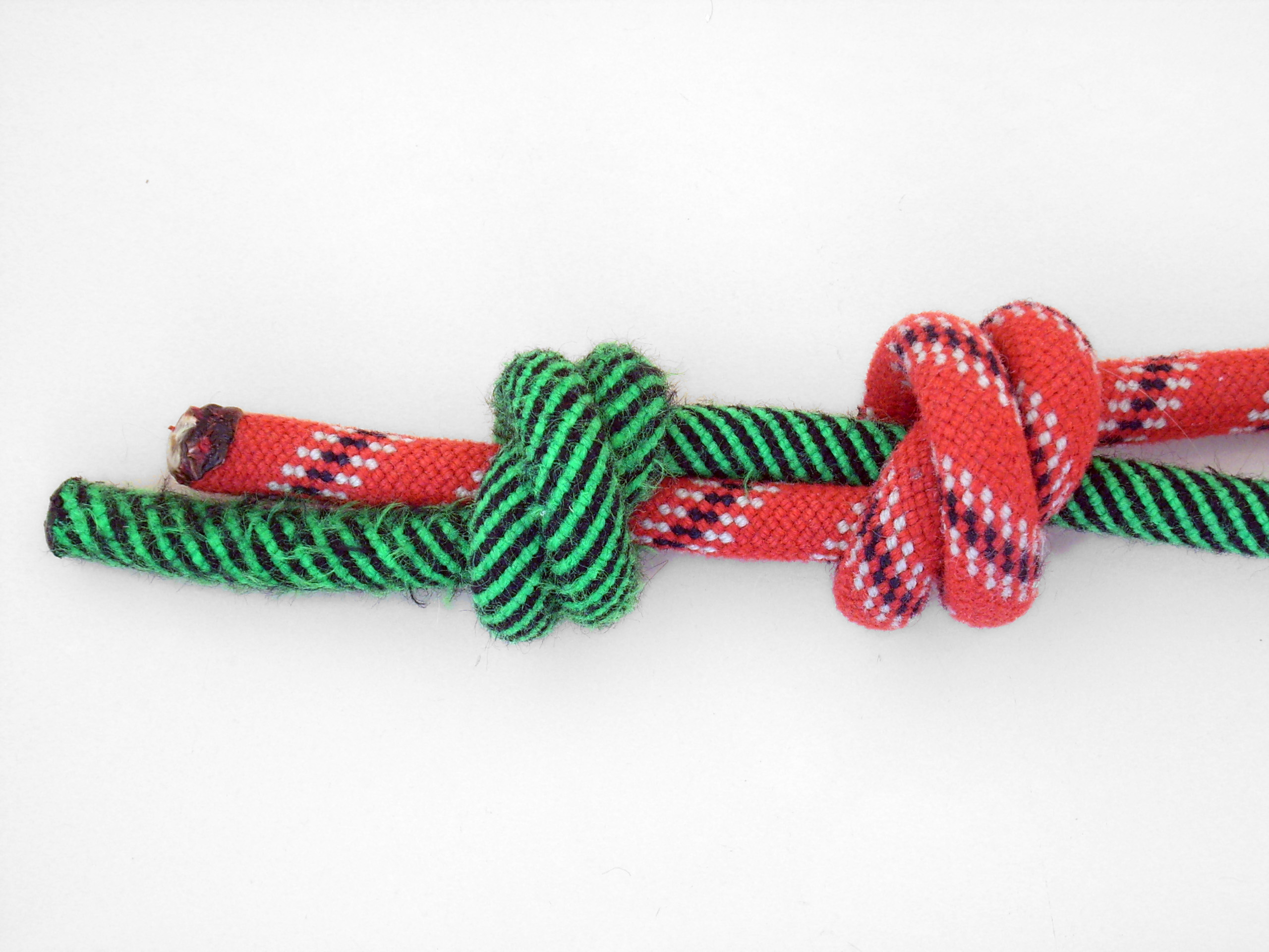 Double Fisherman's Knot in drop form, before tightening